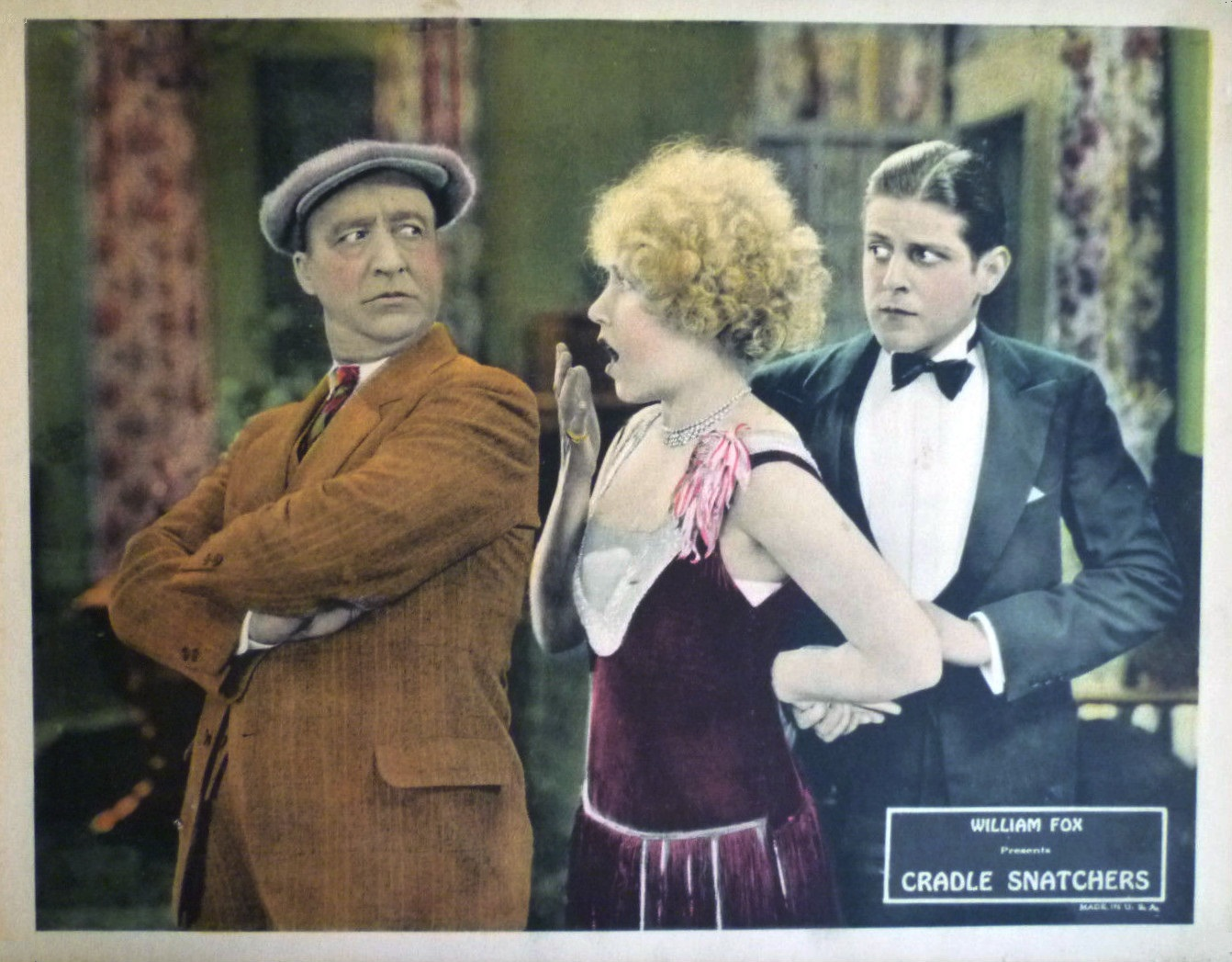 Lobby card for the American comedy film Cradle Snatchers:Cradle Snatchers (1927). There are no copyright marks. At lower right is Made in USA.